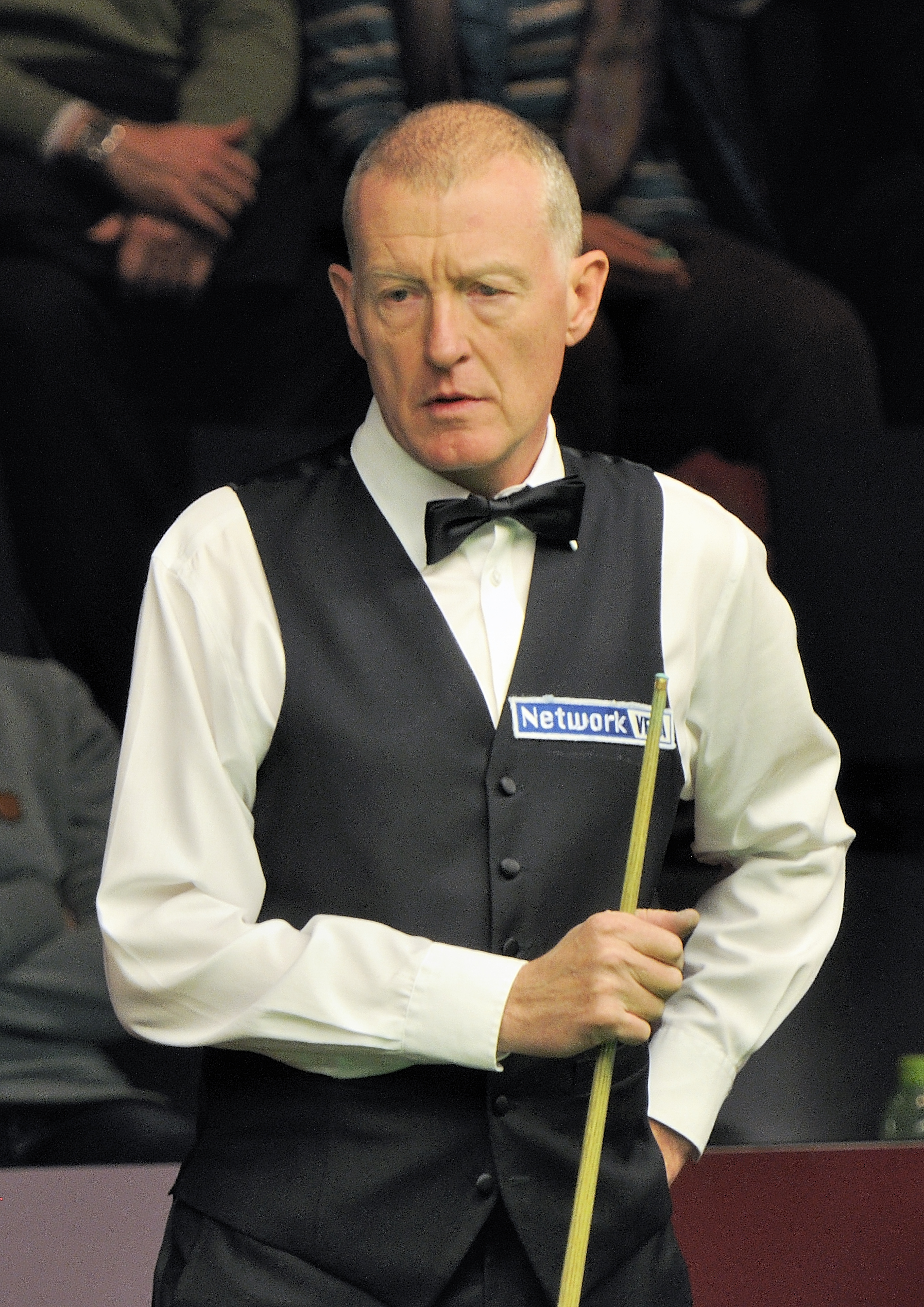 Picture taken in Berlin during the Snooker German Masters in 2014. Steve Davis.